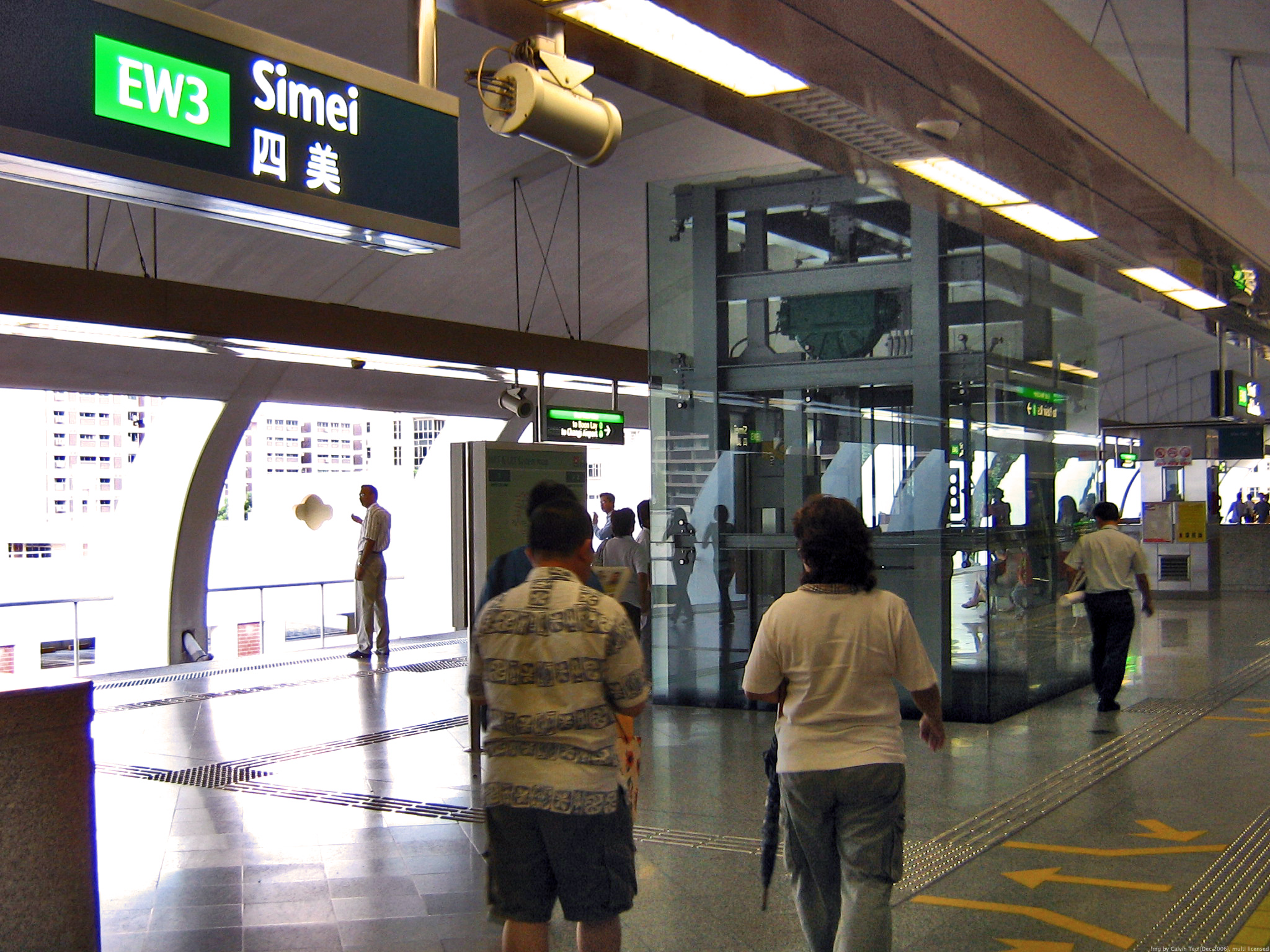 Platform of EW3 Simei Station on the East West Line in Singapore.